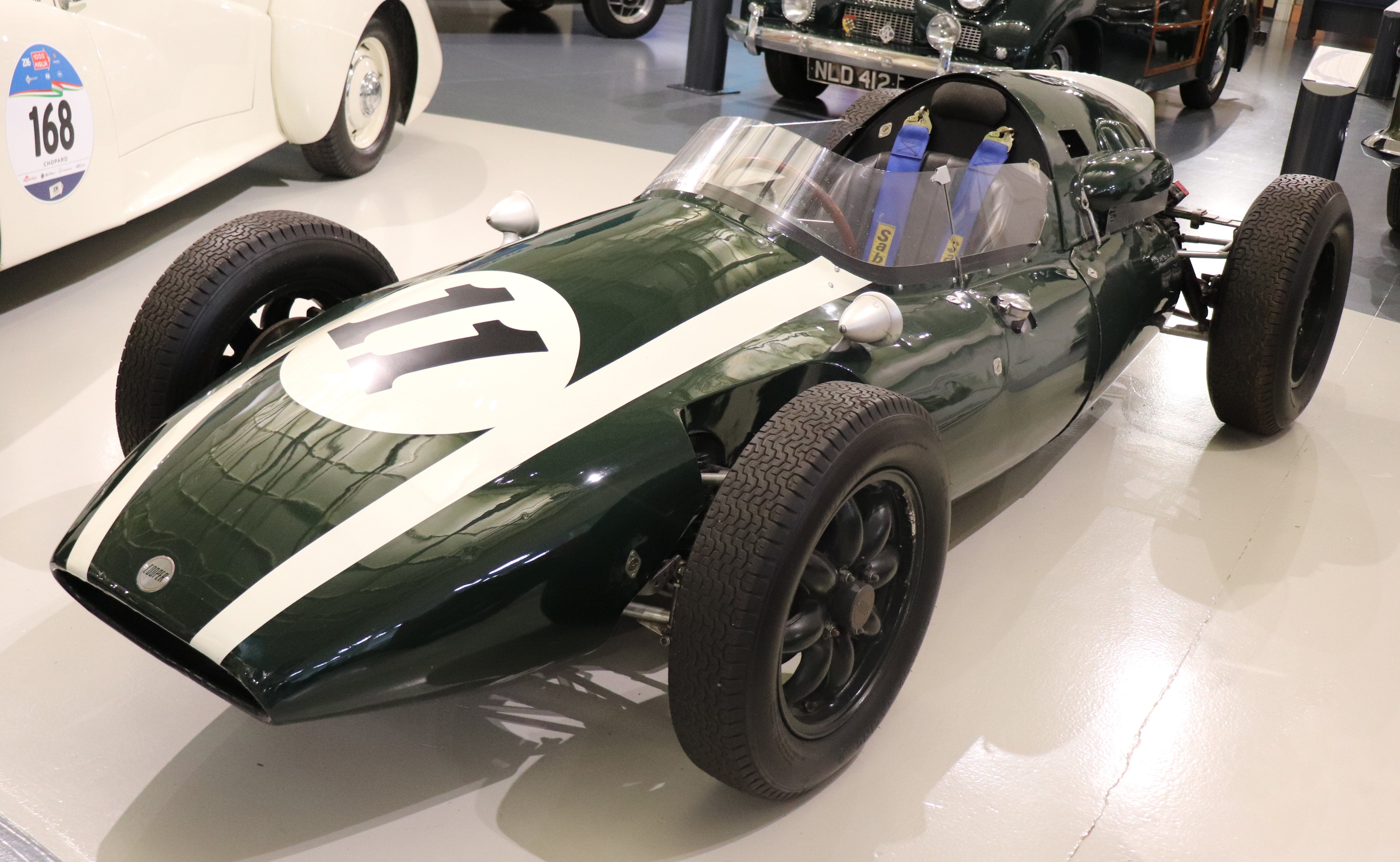 1959 Cooper T51 Tasman 2.7 Front Taken at the British Motor Museum, Gaydon